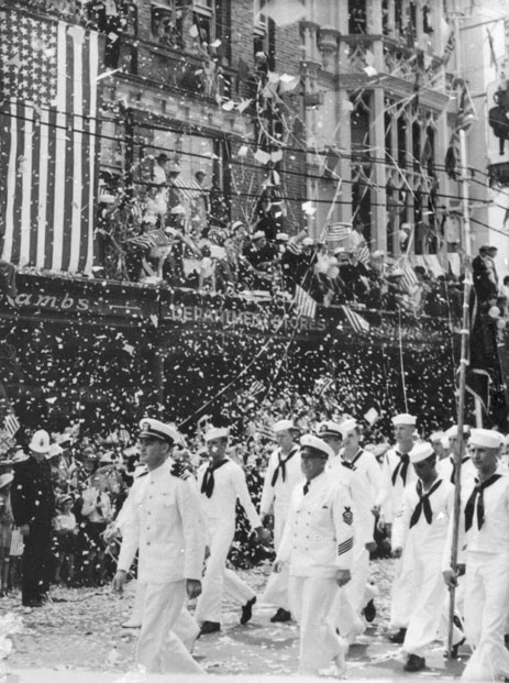 Sailors from visiting United States of America warships marching through Brisbane.